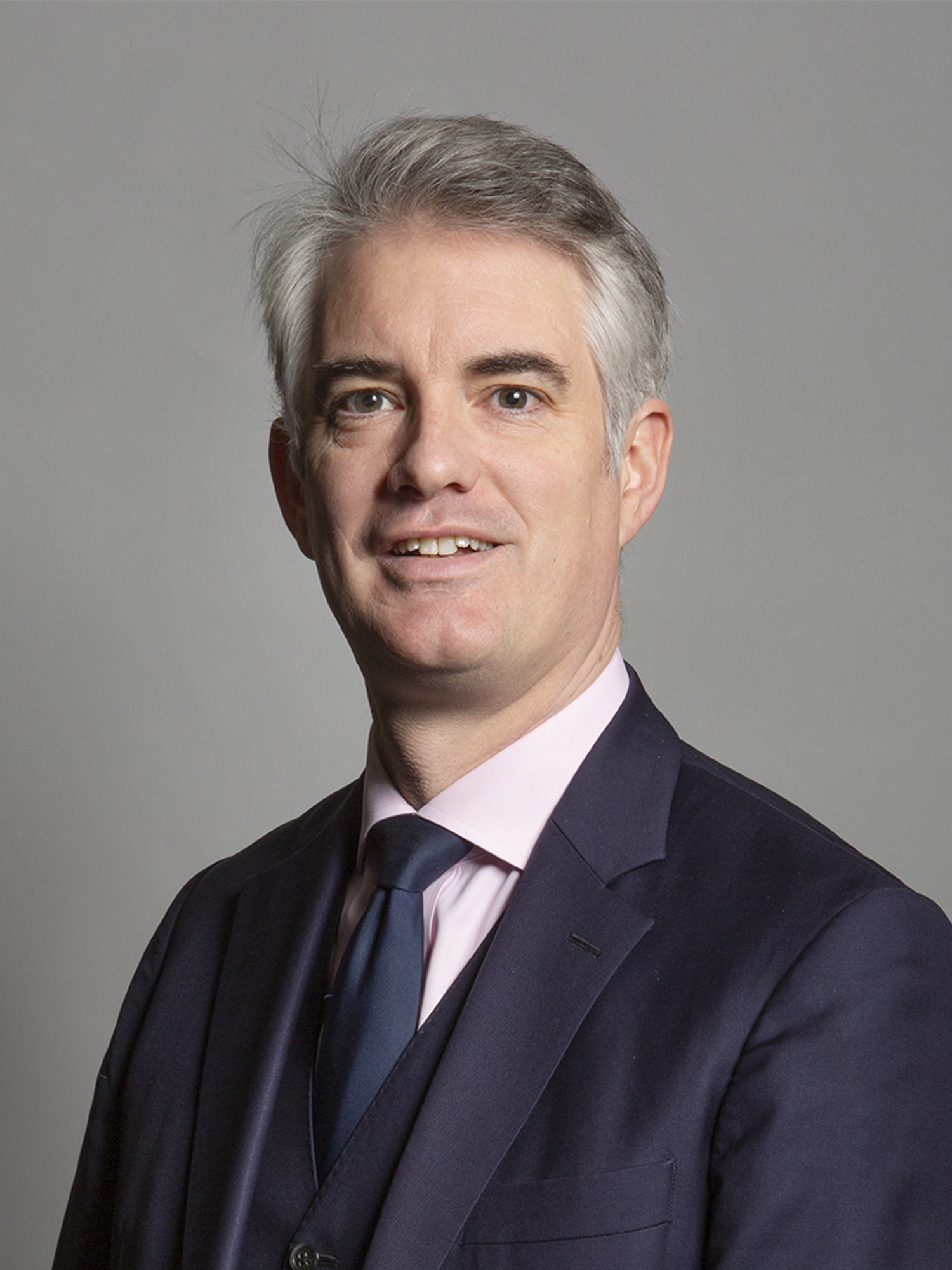 Official portrait of James Cartlidge MP 3×4 portrait of James Cartlidge